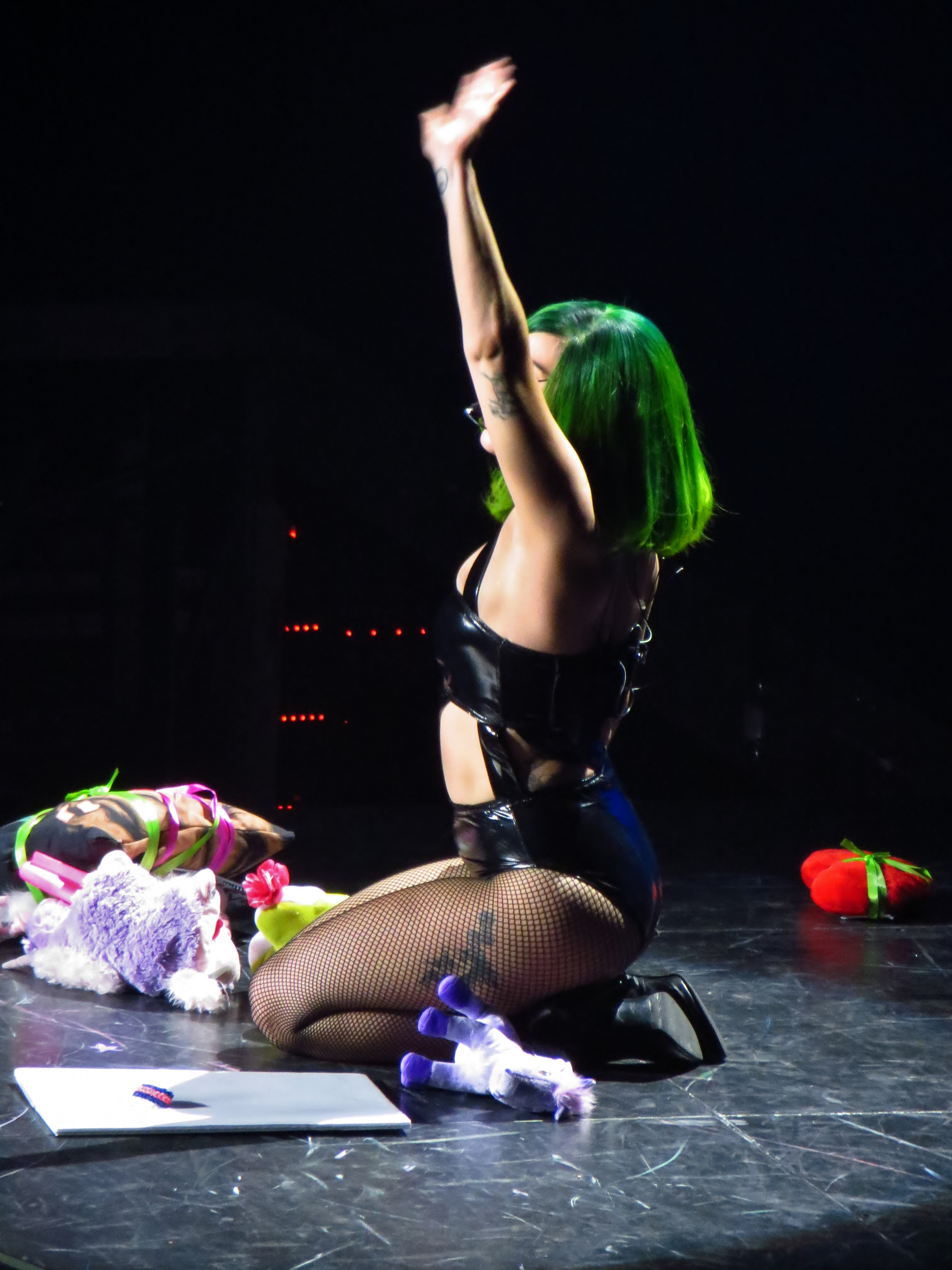 Lady Gaga, ARTPOP Ball Tour, Bell Center, Montréal, 2 July 2014 (94) Gaga performing on ArtRave: The Artpop Ball tour